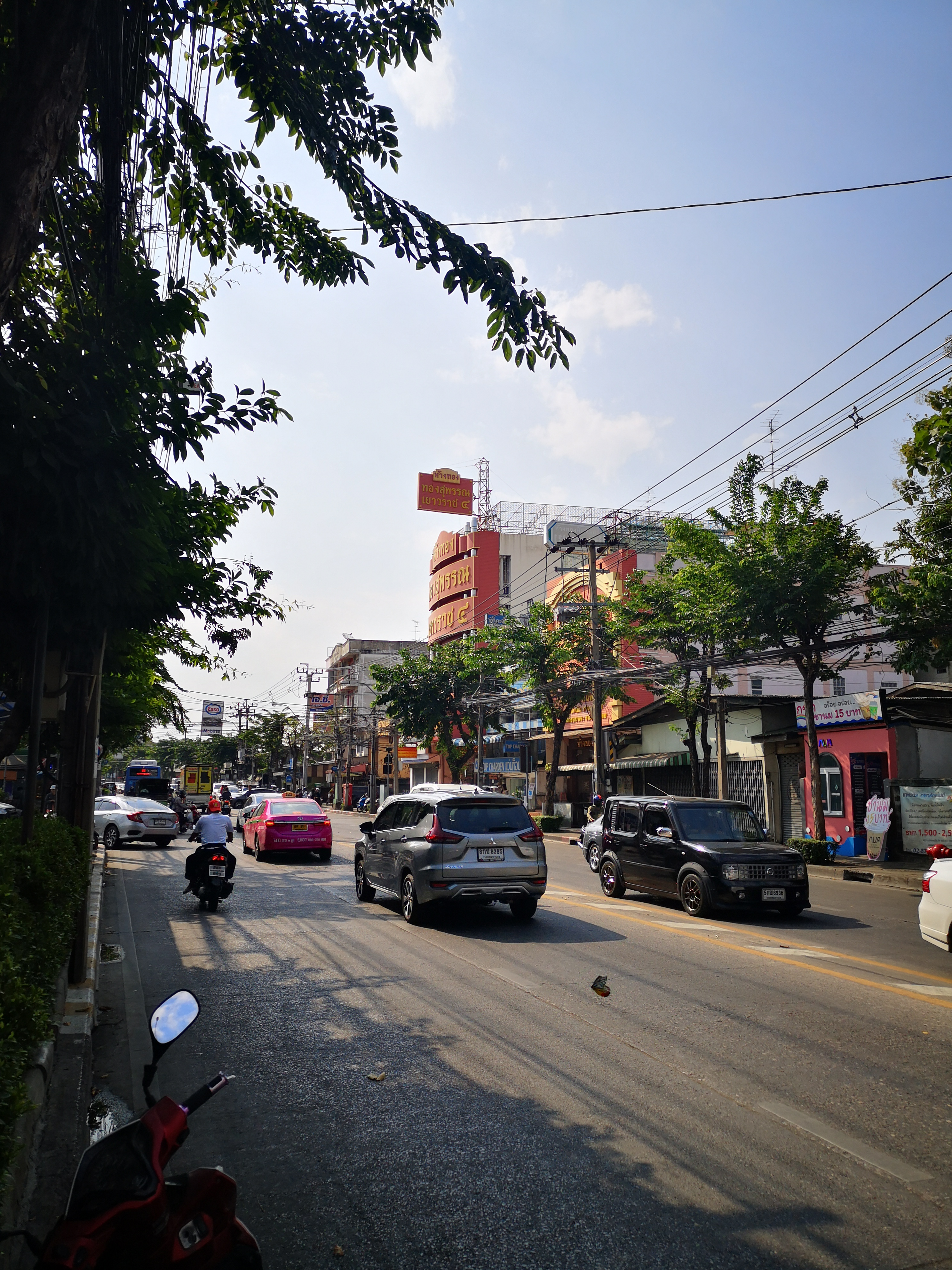 Thanon Pracha Uthit (Thonburi)